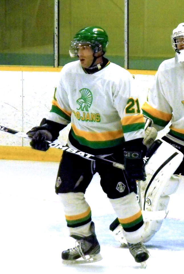 These images of OHA Jr. C action during the 2014-15 season are taken by Devan Mighton.